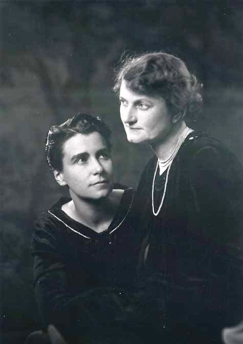 Arnold Genthe (1869-1942) / LOC agc.7a10990. Miss Dorothy Arzner and Marion Morgan, 1927